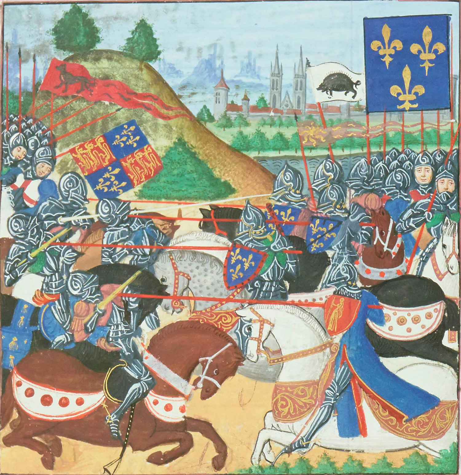 The Battle of Patay (18 June 1429).